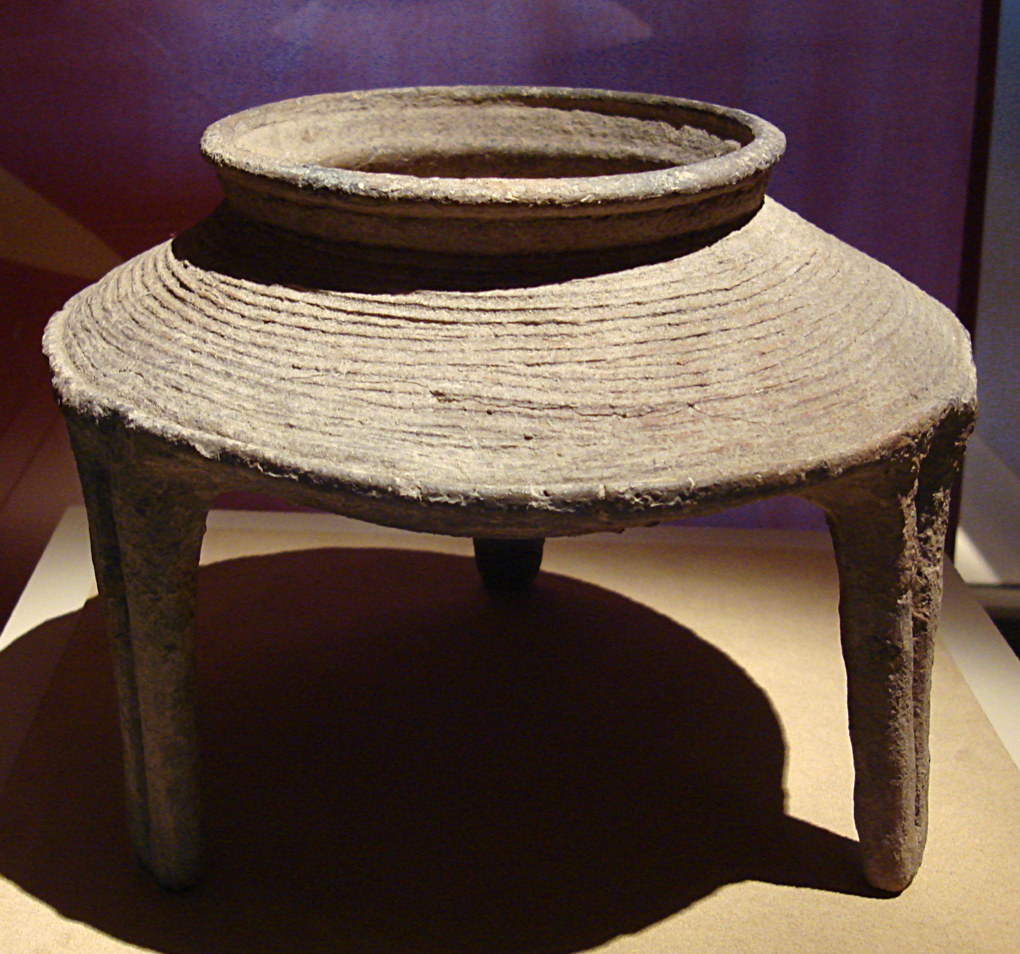 Pottery Ding (Cooking Vessel), Yangshao Culture, Neolithic period (ca. 5000 - 3000 B.C.). This ding, made by the Yangshao Culture located along the middle and lower reaches of the Yellow River, is decorated with a string pattern, and heated quickly.